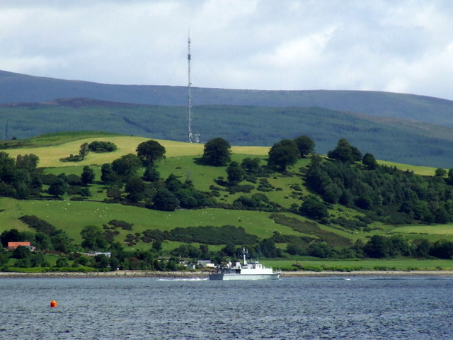 Gallow Hill. On Rosneath Peninsula, viewed from near Gourock Swimming Pool 859290.